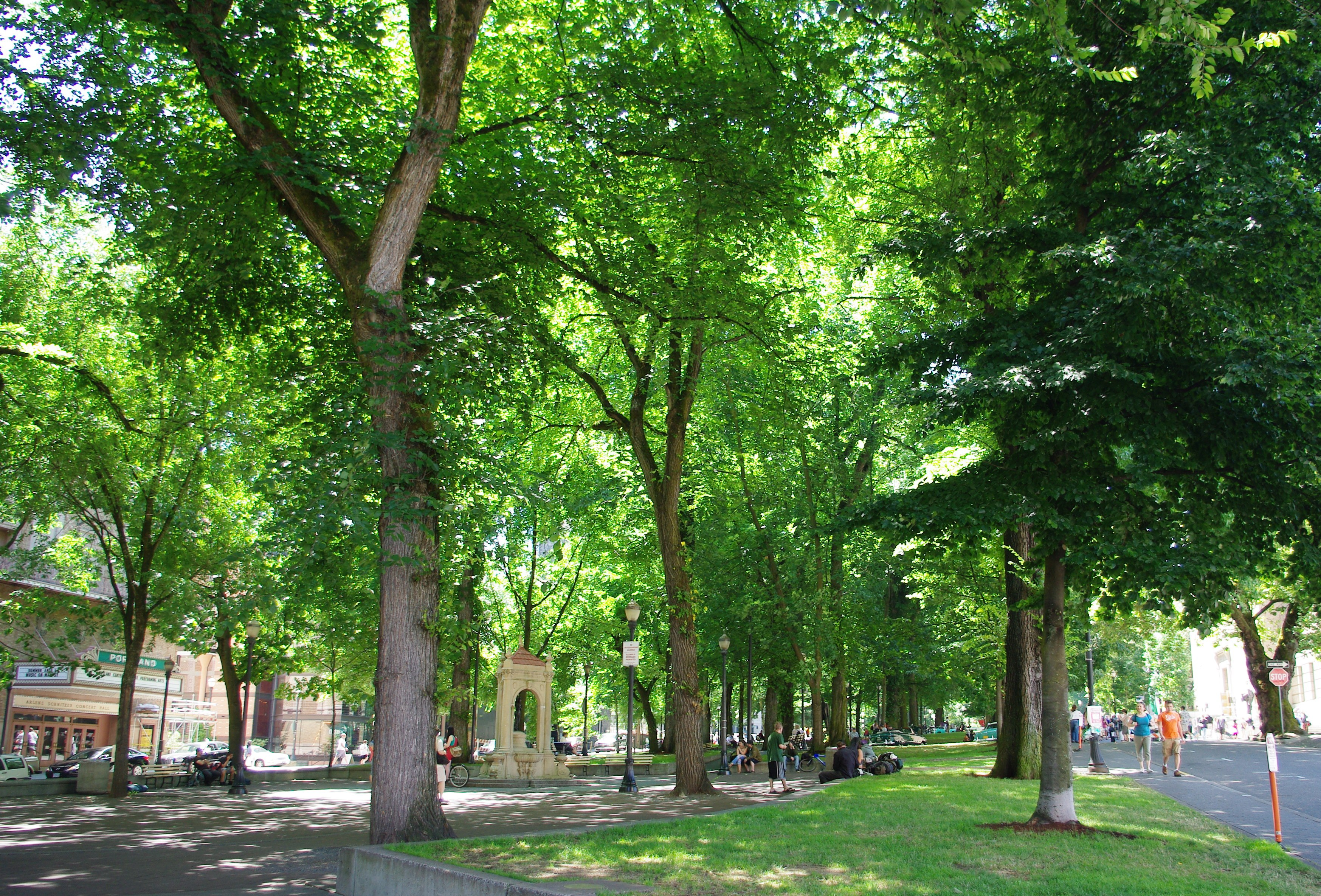 The South Park Blocks during the summer at Salmon Street. Shemanski Fountain is in the background.